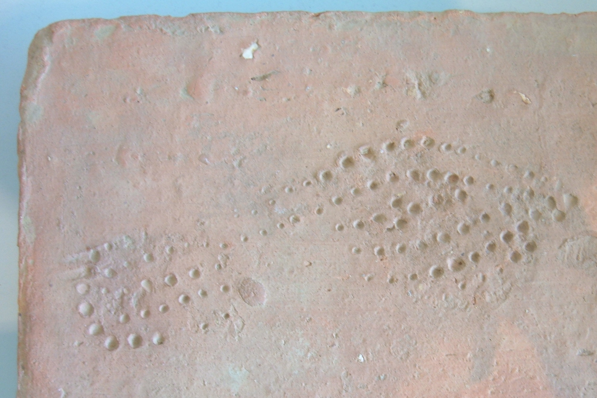 Print of a caliga in a wet tile from the kilms of the Tenth Legion in Berg en Dal near Nijmegen. Collection Museum het Valkhof. Museum Het Valkhof Native nameMuseum Het ValkhofLocationNijmegenAddress Kelfkensbos 59 6511 TB Nijmegen Netherlands Coordinates51° 50′ 48″ N, 5° 52′ 16″ E Established1999Website control : Q1127079 VIAF: 158715438 ISNI: 0000 0004 0533 6734 GND: 5519052-2 SUDOC: 075891700 BNF: 15741638g